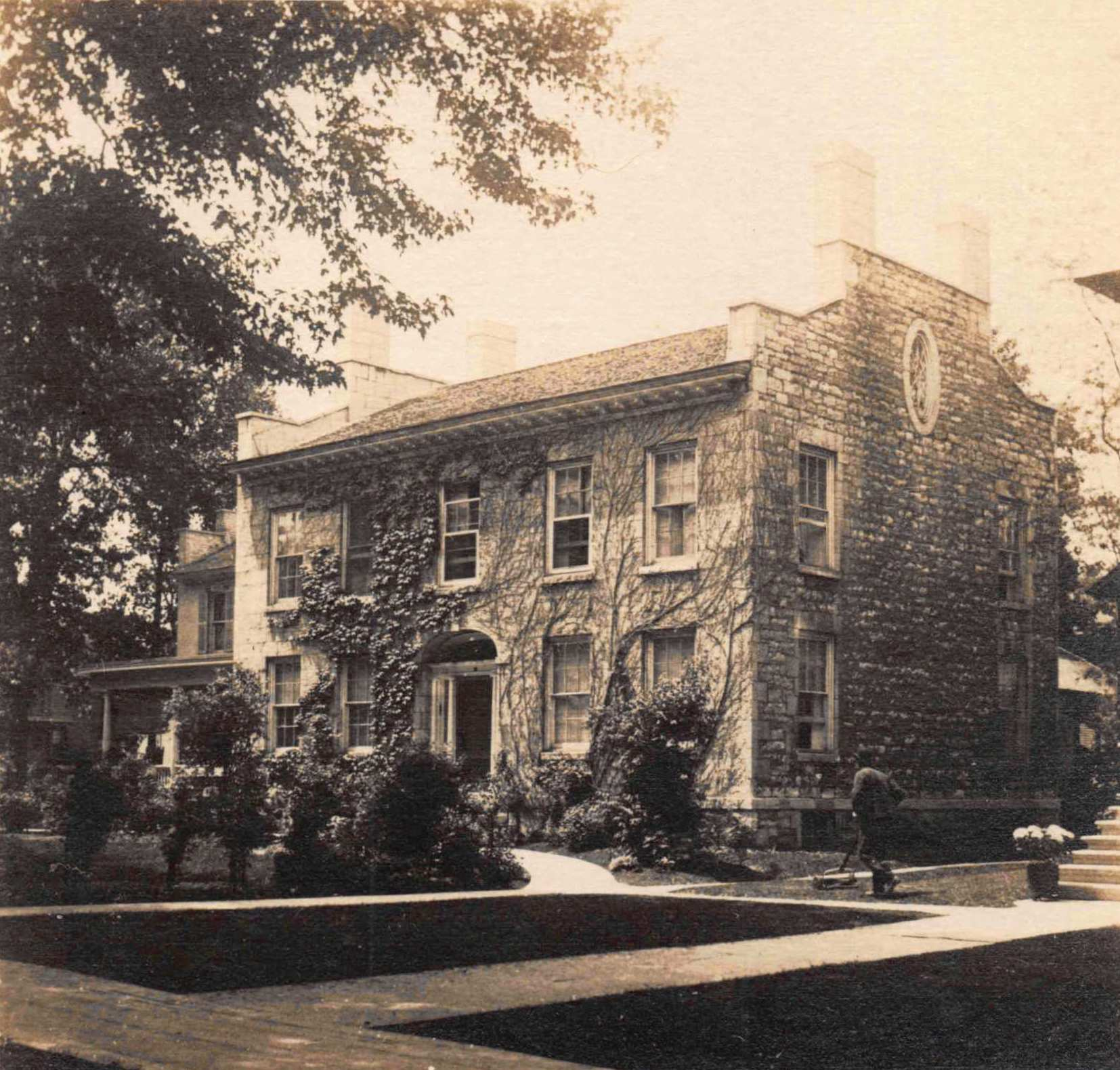 Postcard of Orville Hungerford's house in Watertown New York.